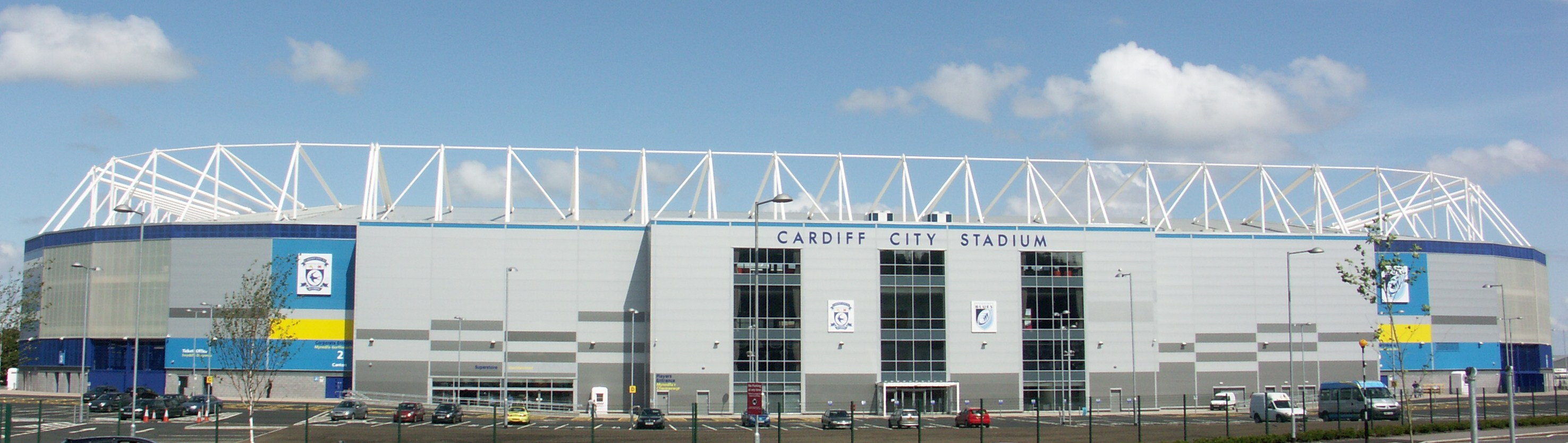 Cardiff City Stadium